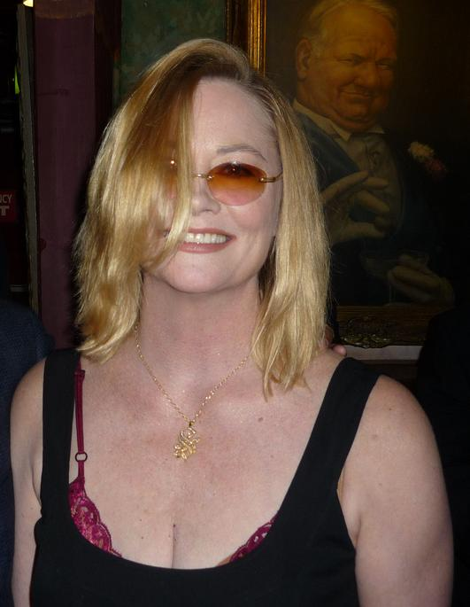 Cybill Shepherd at The Magic Castle in Hollywood. April 1, 2010